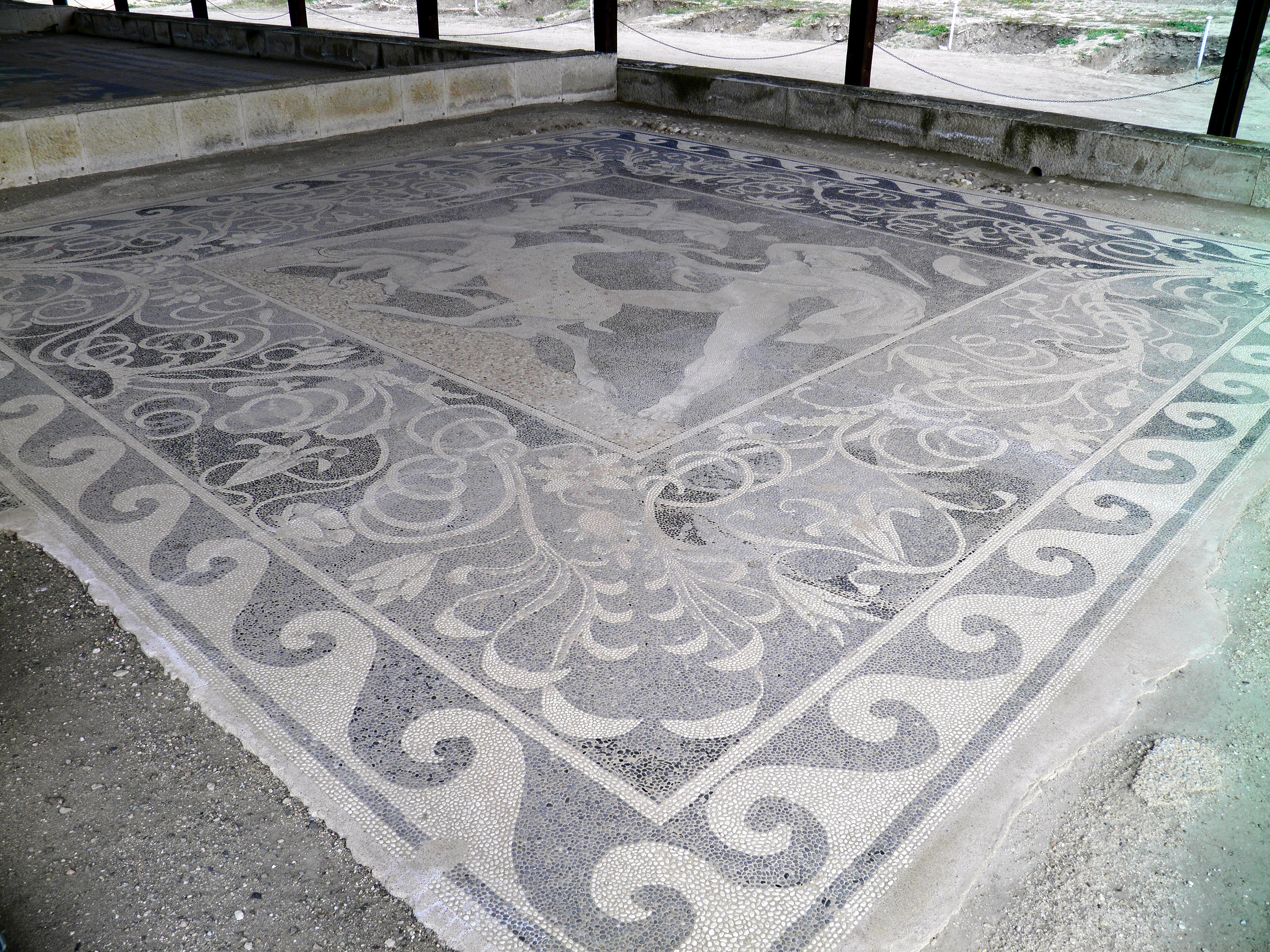 The Stag Hunt mosaic (c. 300 BCE) by Gnosis is a mosaic from a wealthy home, the so called "House of the Abduction of Helen" (or "House of the Rape of Helen"), in Pella, the capital of the Macedonian Kingdom. The emblema is bordered by an intricate floral pattern, which itself is bordered by stylized depictions of waves. The mosaic is a pebble mosaic with stones collected from beaches and riverbanks which were set into cement. As was perhaps often the case, the mosaic does much to reflect styles of painting. The light figures against a darker background may allude to red figure painting. The mosaic also uses shading, known to the Greeks as skiagraphia, in its depictions of the musculature and cloaks of the figures. This along with its use of overlapping figures to create depth renders the image three dimensional. It is often wondered if Gnosis, whose signature ("Gnosis epoesen", i.e. Gnosis created) is the first known signature of a mosaicist, could have been the painter of an earlier picture which the mosaic reproduces, rather than the mosaic-setter. In the case of pottery, 'epoesen' referred to a maker of the pot while 'egraphsen' was the verb used to designate the painter. Therefore, if an analogy to pottery is warranted, it seems likely for Gnosis to have been a mosaicist. Since gnosis (Greek: γνῶσις) is also the Greek word for knowledge, others have said the inscription does not refer to an author at all; but to an abstract pronoun. The figure on the right is possibly Alexander the Great due to the date of this mosaic along with the depicted upsweep of the hair. The figure to the left wields a double-headed axe, likely alluding to Hephaistos; meaning the figure depicted could be the general Hephaestion. The dog depicted is possibly Peritas accompanying Alexander. Source